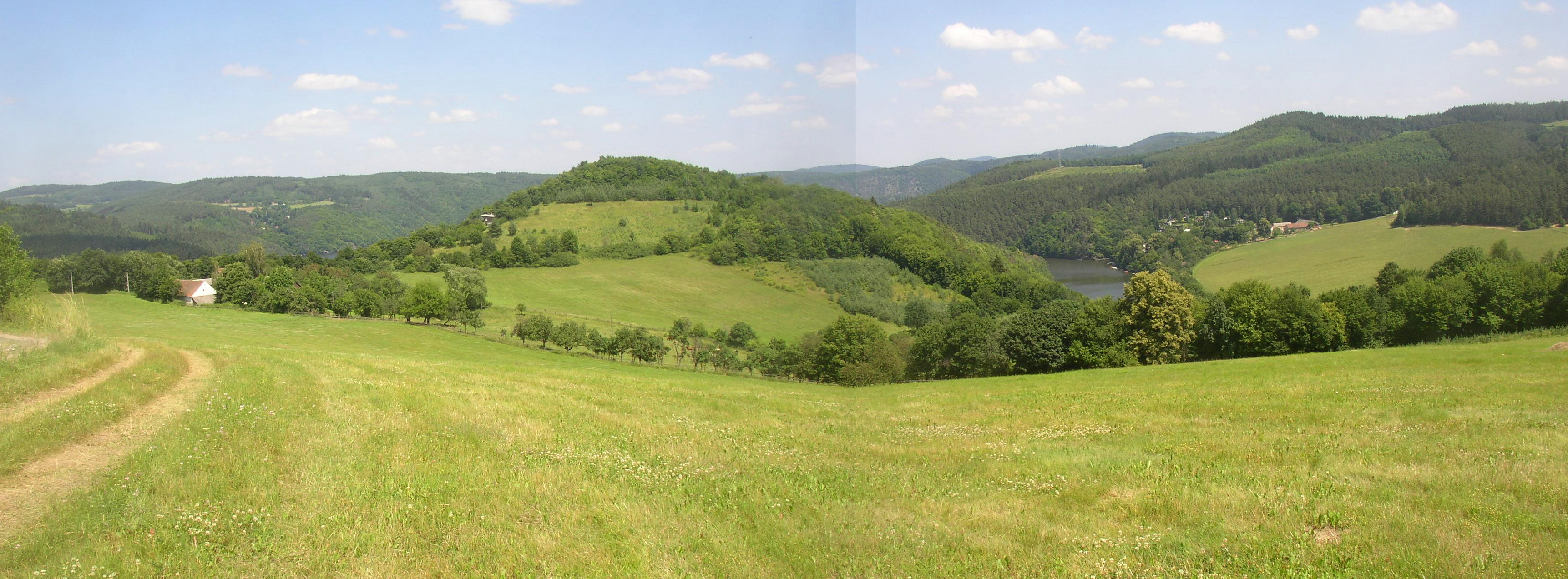 Area of Hrazany Oppidum (10 km north of Sedlčany, Czech Republic). A view from Doubí hill towards Červenka hill.